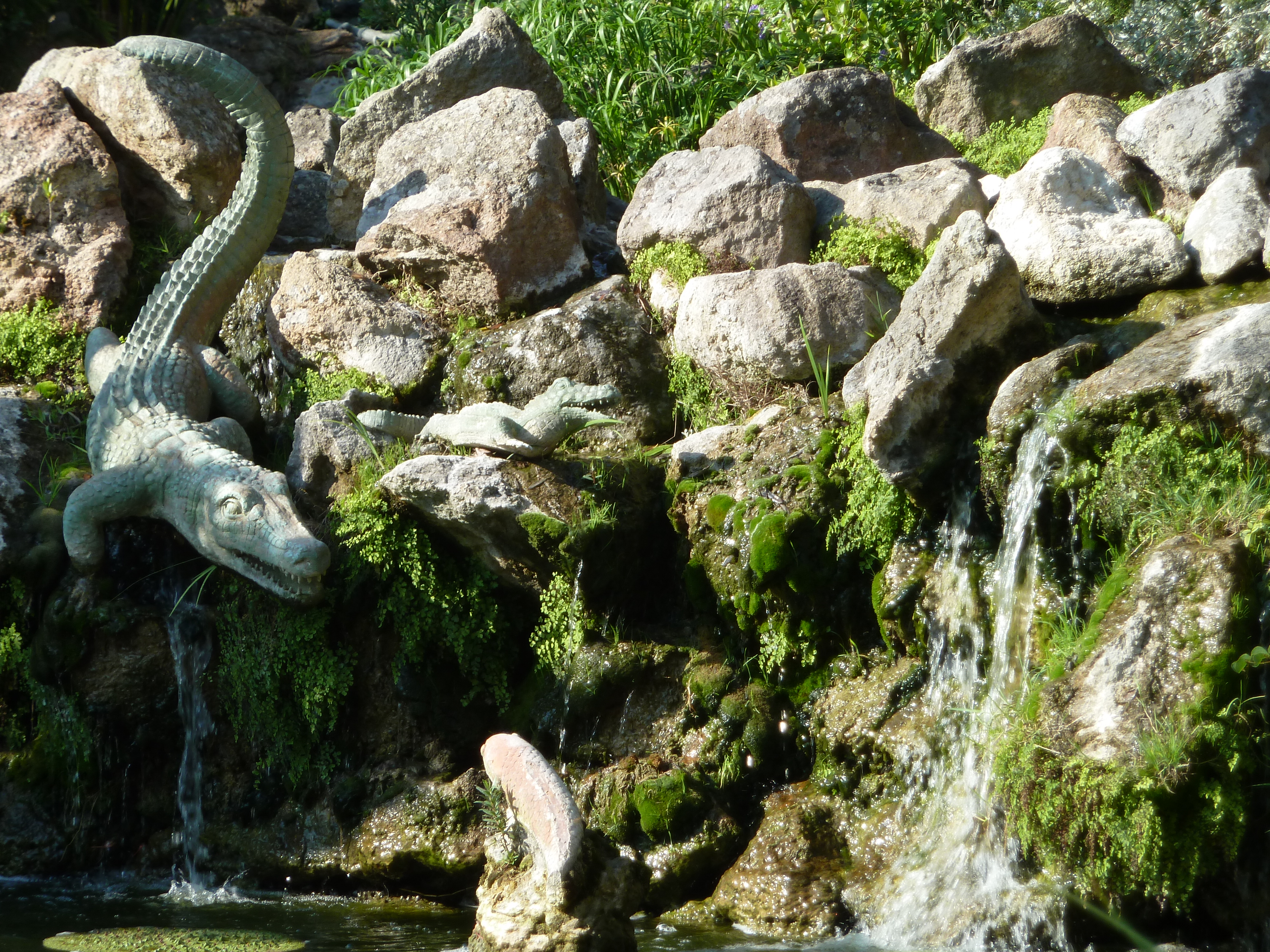 cascata del cocodrillo